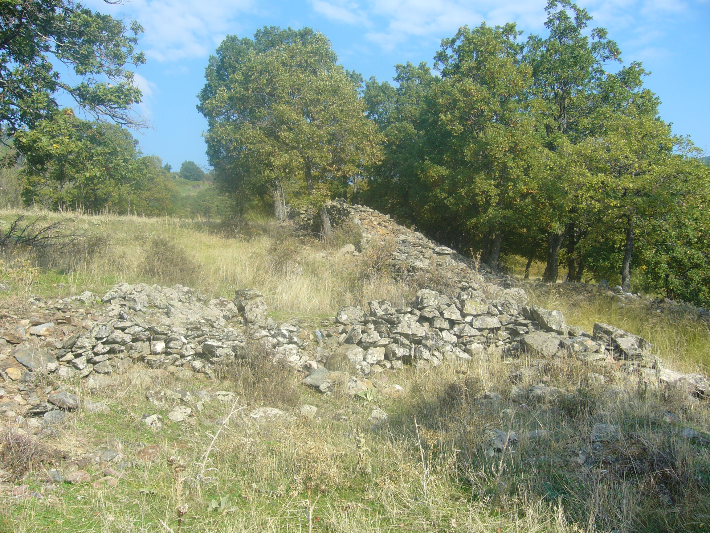 Prefecture of Kastoria, possibly Sidirohori